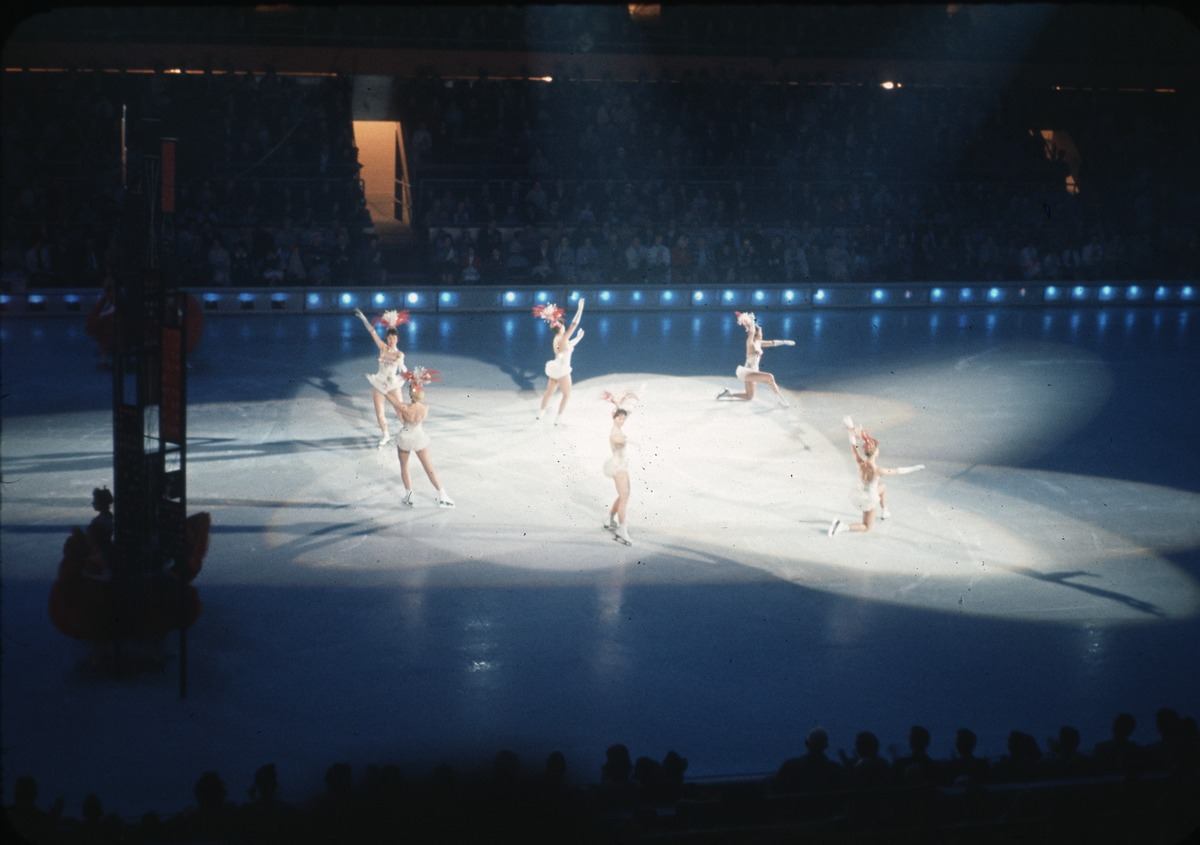 Ice Follies at 1962 Worlds Fair (Century 21 Exposition, Seattle, Washington, USA).Item 77825, Jim Skinner Photograph Collection (Record Series 9975-01), Seattle Municipal Archives.